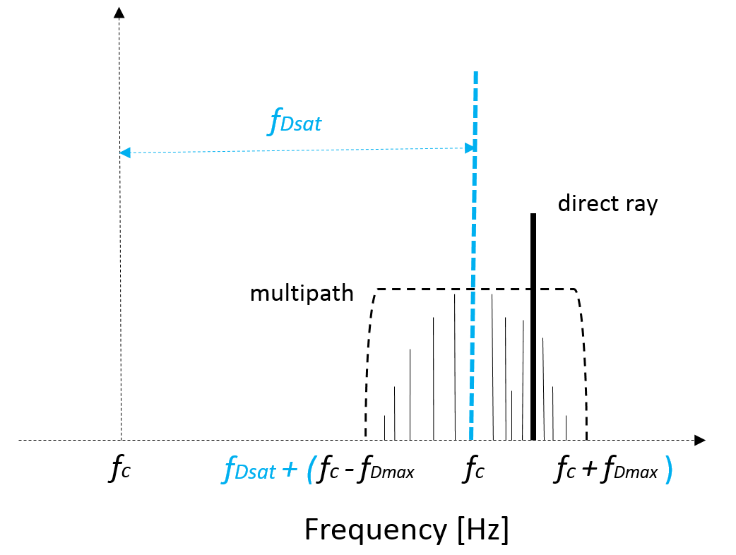 Developed according to [1].